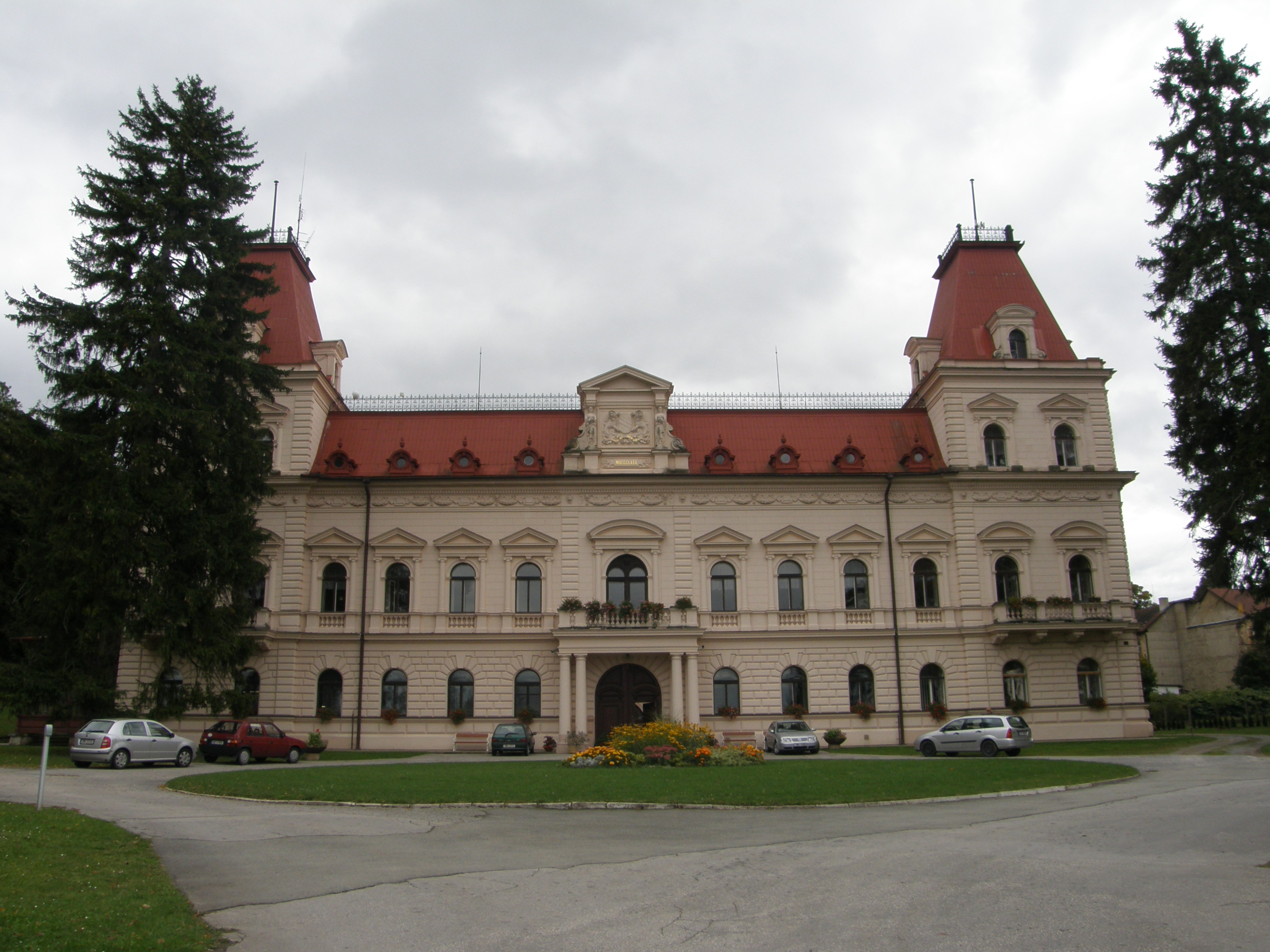 Šebetov Chateau